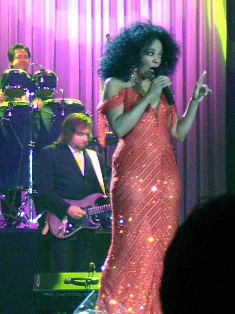 Diana Ross 2007 in Rotterdam